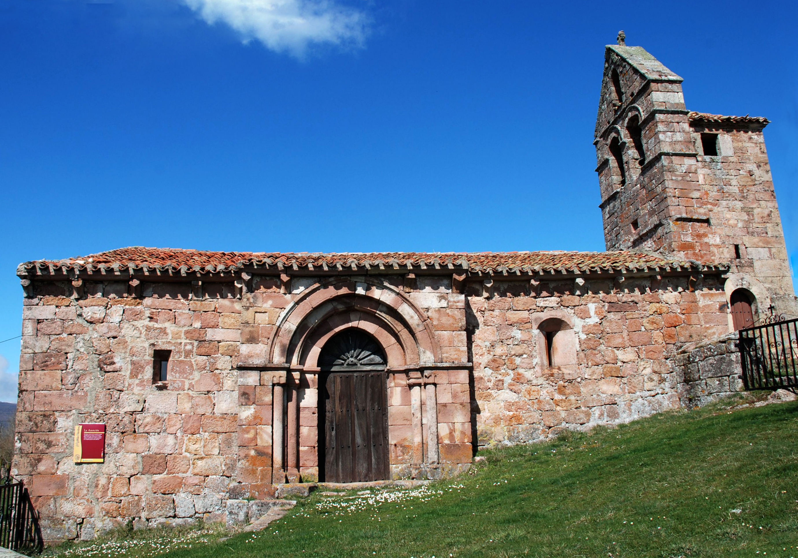 Church of La Asunción in Monasterio (Palencia, Castile and León).